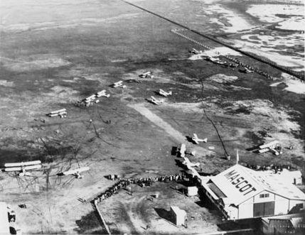 Operating as Sydney's civil airport since 1920, Mascot saw a relatively minor presence by the RAAF during World War II. No 4 Elementary Flying Training School operated from the site between 1940 and 1942, and Nos 2 and 3 Communication Units were also located at the airfield during the war.